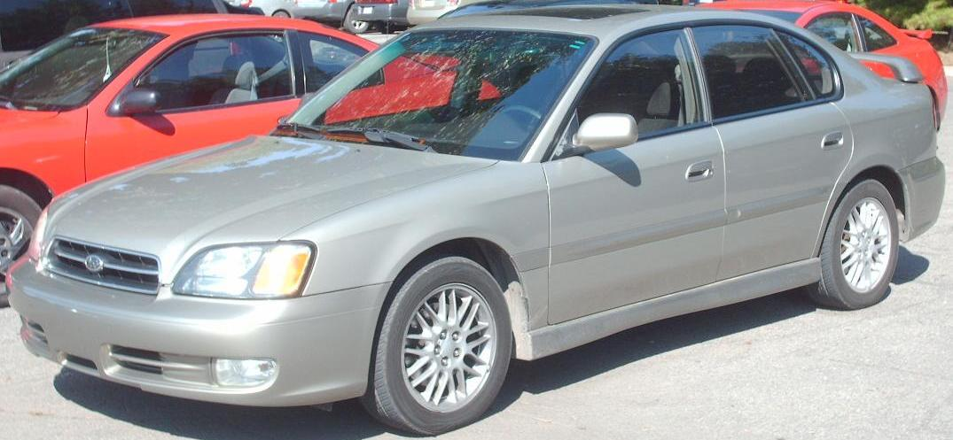 2000-2002 Subaru Legacy photographed in Quebec, Canada.